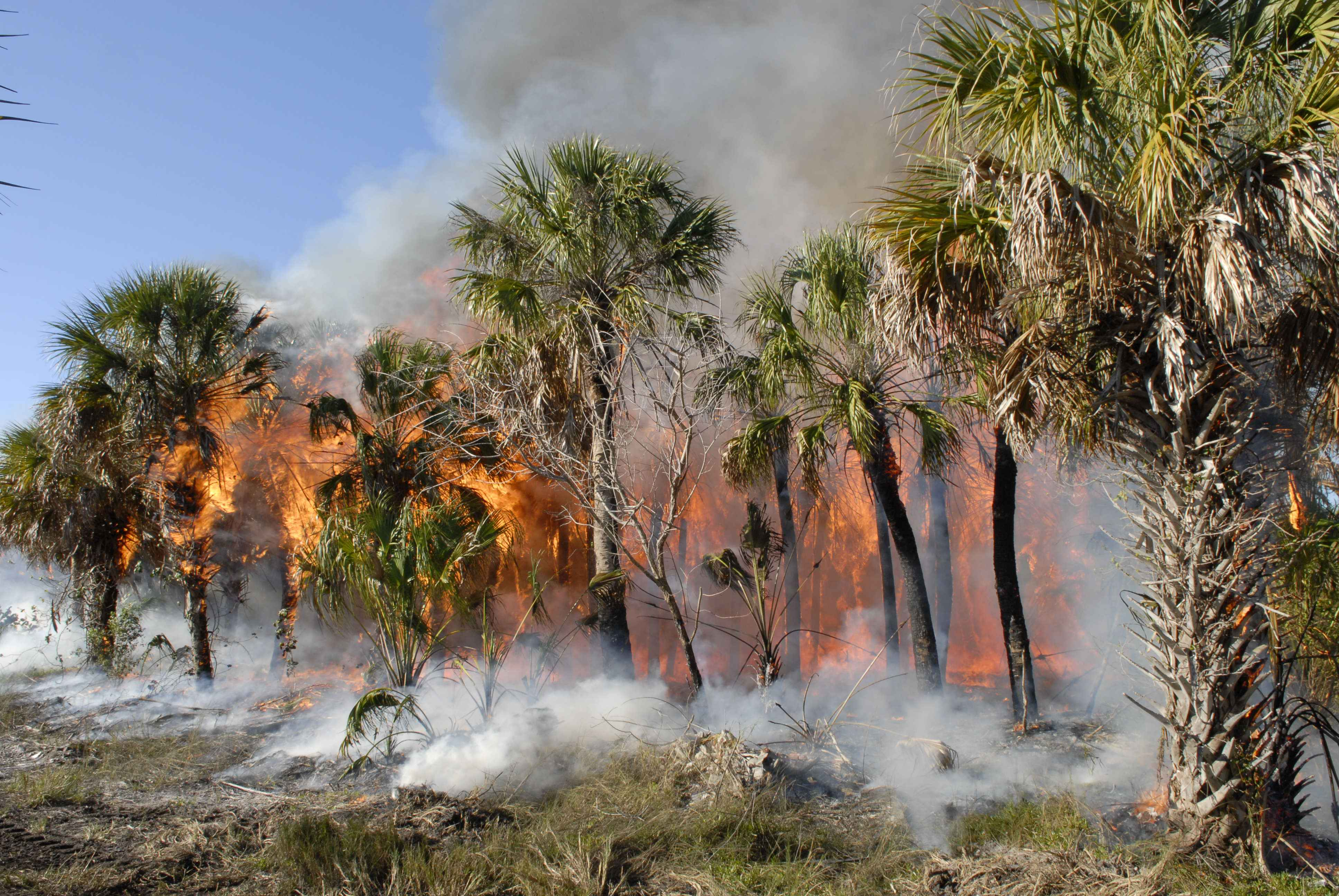 Image title: Big tropical forest fire Image from Public domain images website